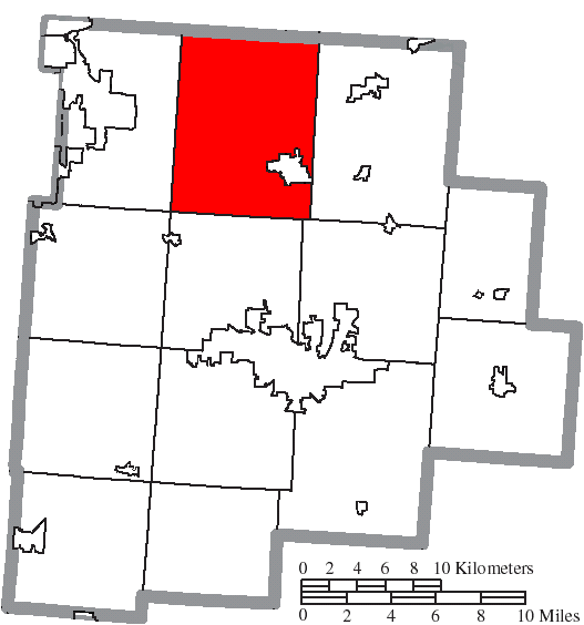 Map of the municipal and township boundaries of Fairfield County, Ohio, United States, as of the 2000 census, with the location of Liberty Township highlighted. Township borders are shown only in unincorporated areas in order to differentiate incorporated and unincorporated areas more clearly.